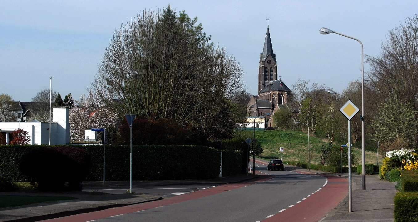 Maastricht, the Netherlands. Residential street (Medoclaan) in Campagne with a view of the parish church of Wolder.